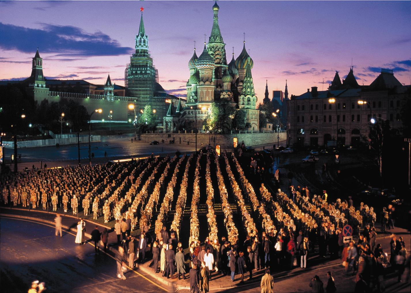 HA Schult "Trash People", Moscow